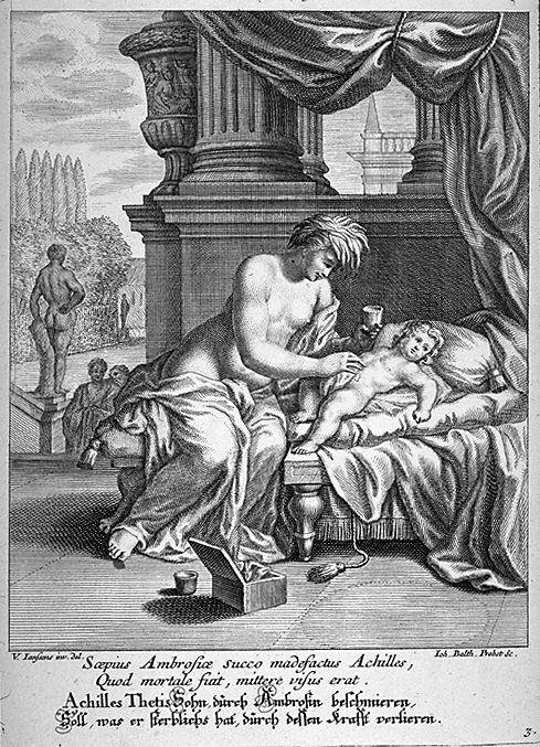 Thetis anoints Achilles with ambrosia 17th - 18th century engraving-etching Johann Balthasar Probst Fine Arts Museums of San Francisco.